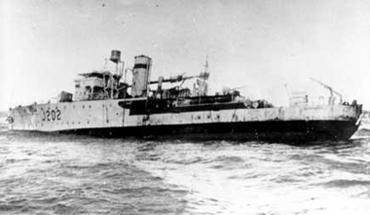 Australian Bathurst class corvette HMAS Warrnambool sinking after striking a mine on 13 September 1947